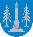 Ottobrunn coat of arms